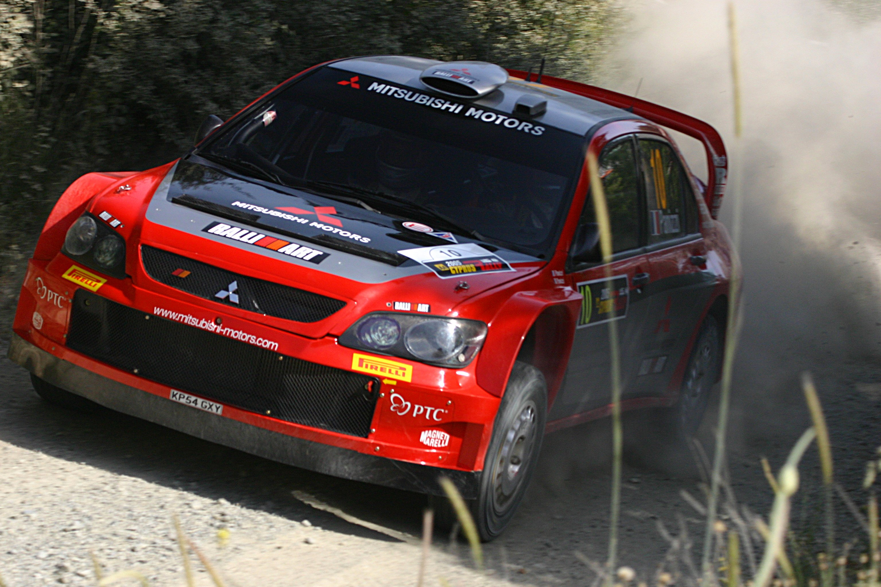 Gilles Panizzi driving his Mitsubishi Lancer WRC at the 2005 Cyprus Rally.